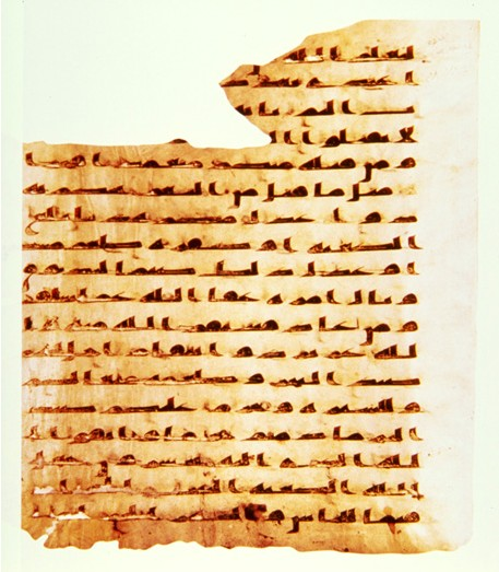 A Qur'anic manuscript on parchment. The text is written in the early Kufic script. Part of verse 94, verses 95 and 96, part of verse 97 (Surah al-Ma'idah). The ayat (verses) are written continuously without separation or decorative devices. Location: Beit al-Qur'an, Manama, Bahrain.